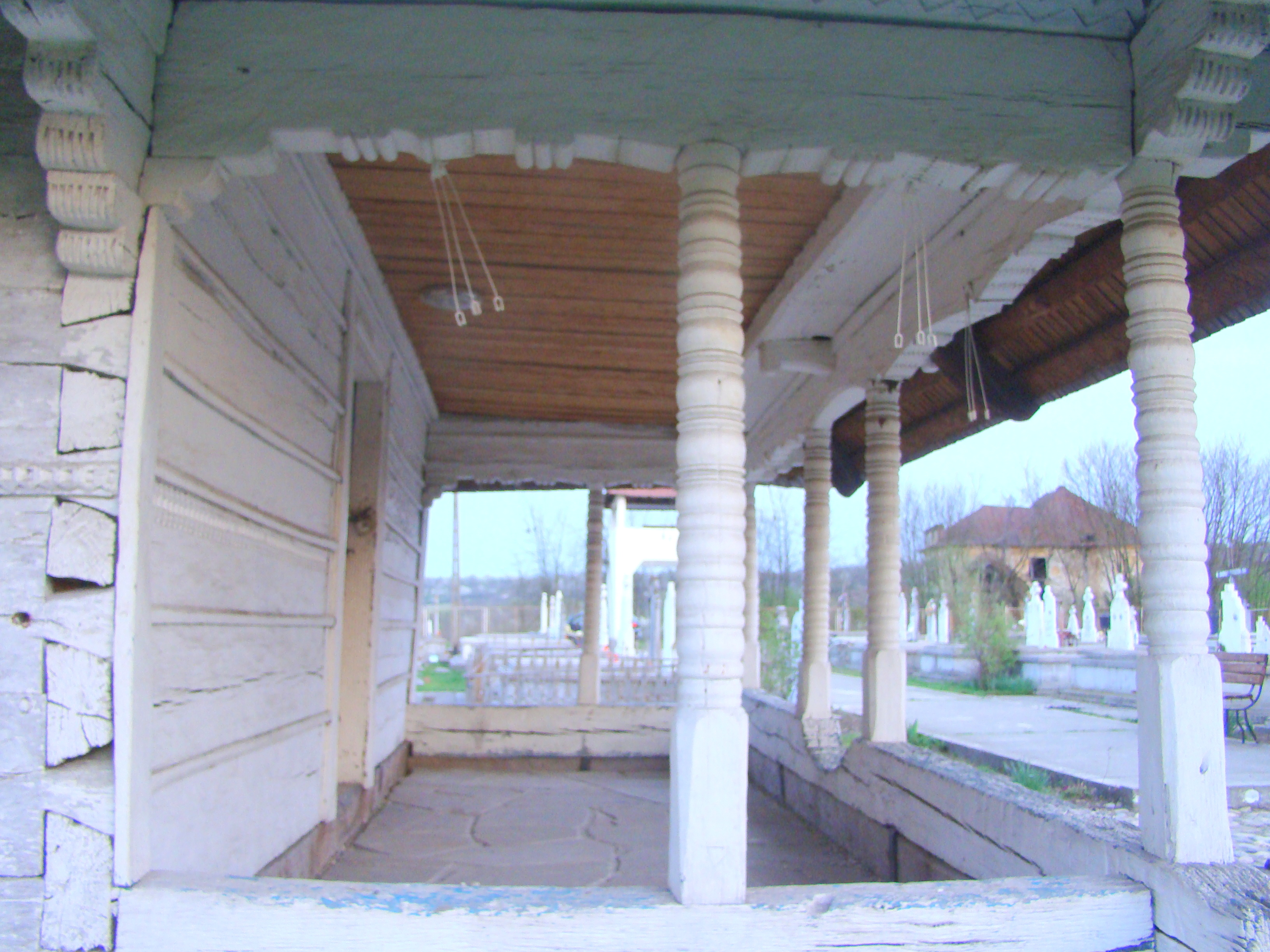 Wooden church in Fărcășești-Broștenița, Gorj county, Romania